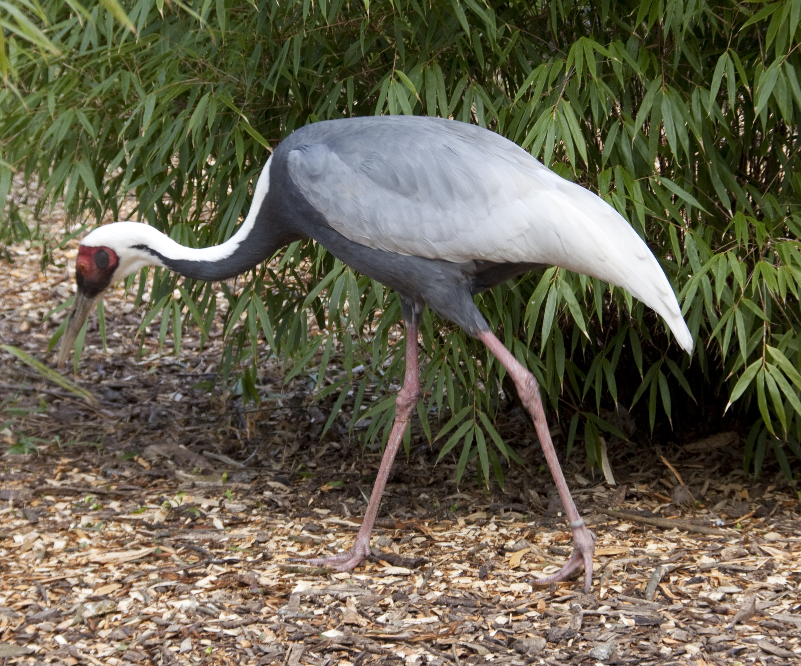 A White-naped Crane at Birmingham Nature Centre, Cannon Hill Park, England.